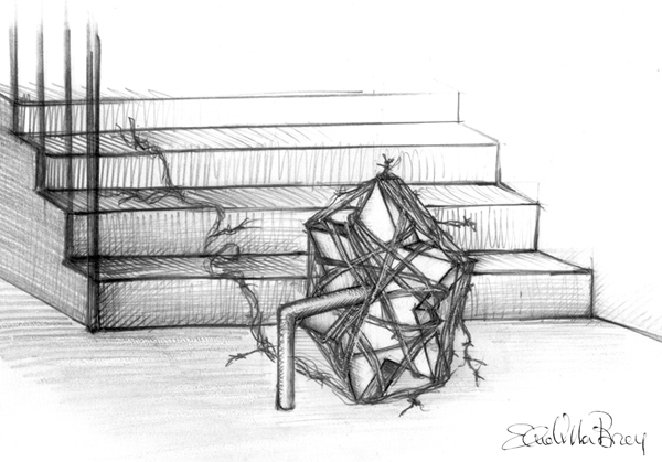 From Franz Kafka